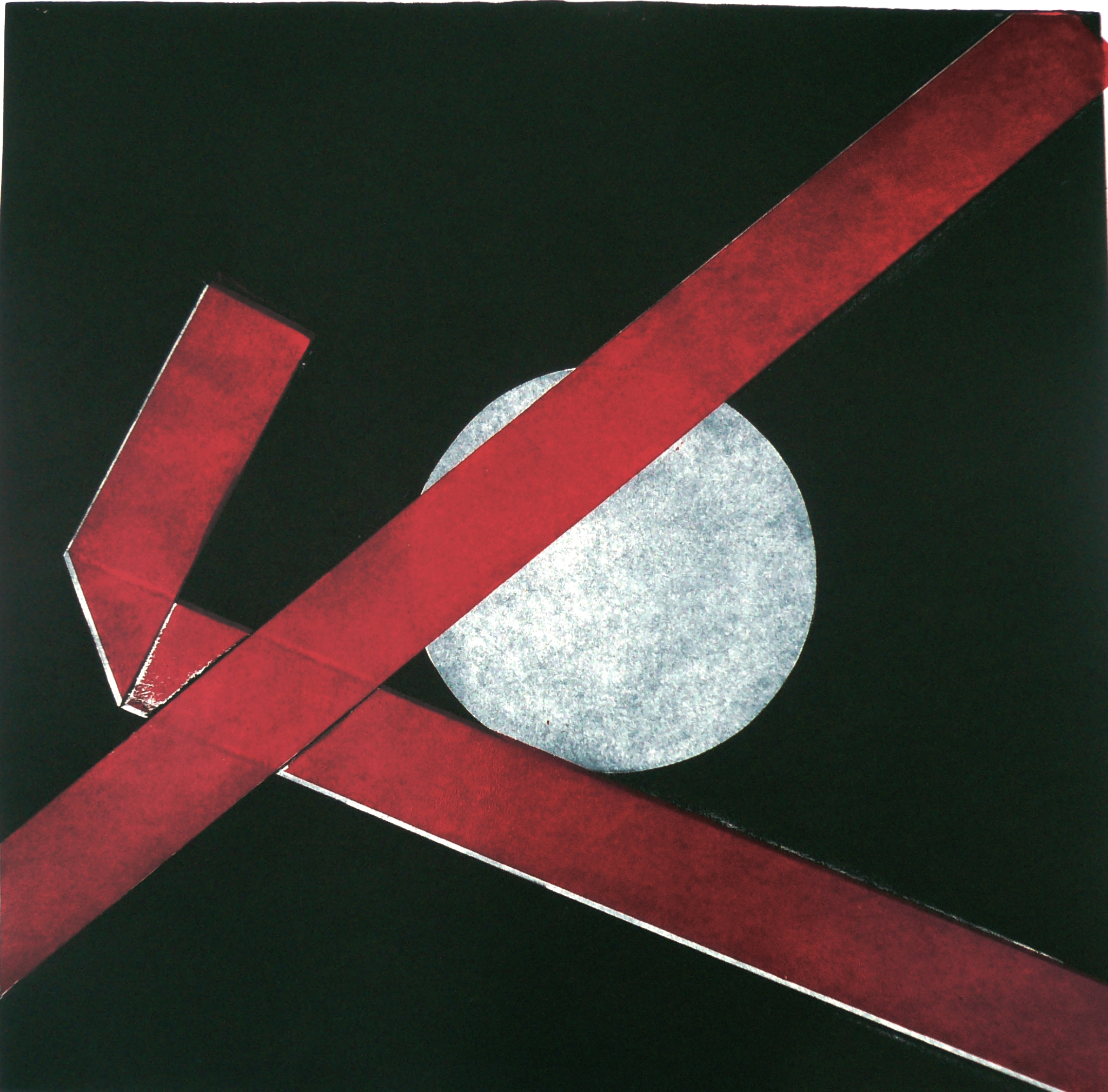 D 108 Faltung 16-1 2016